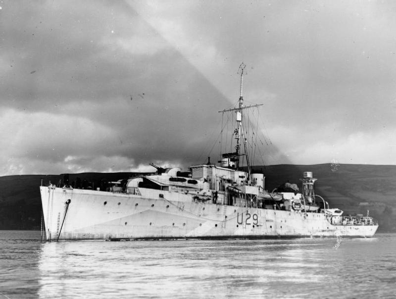 Photograph of British sloop HMS Whimbrel.